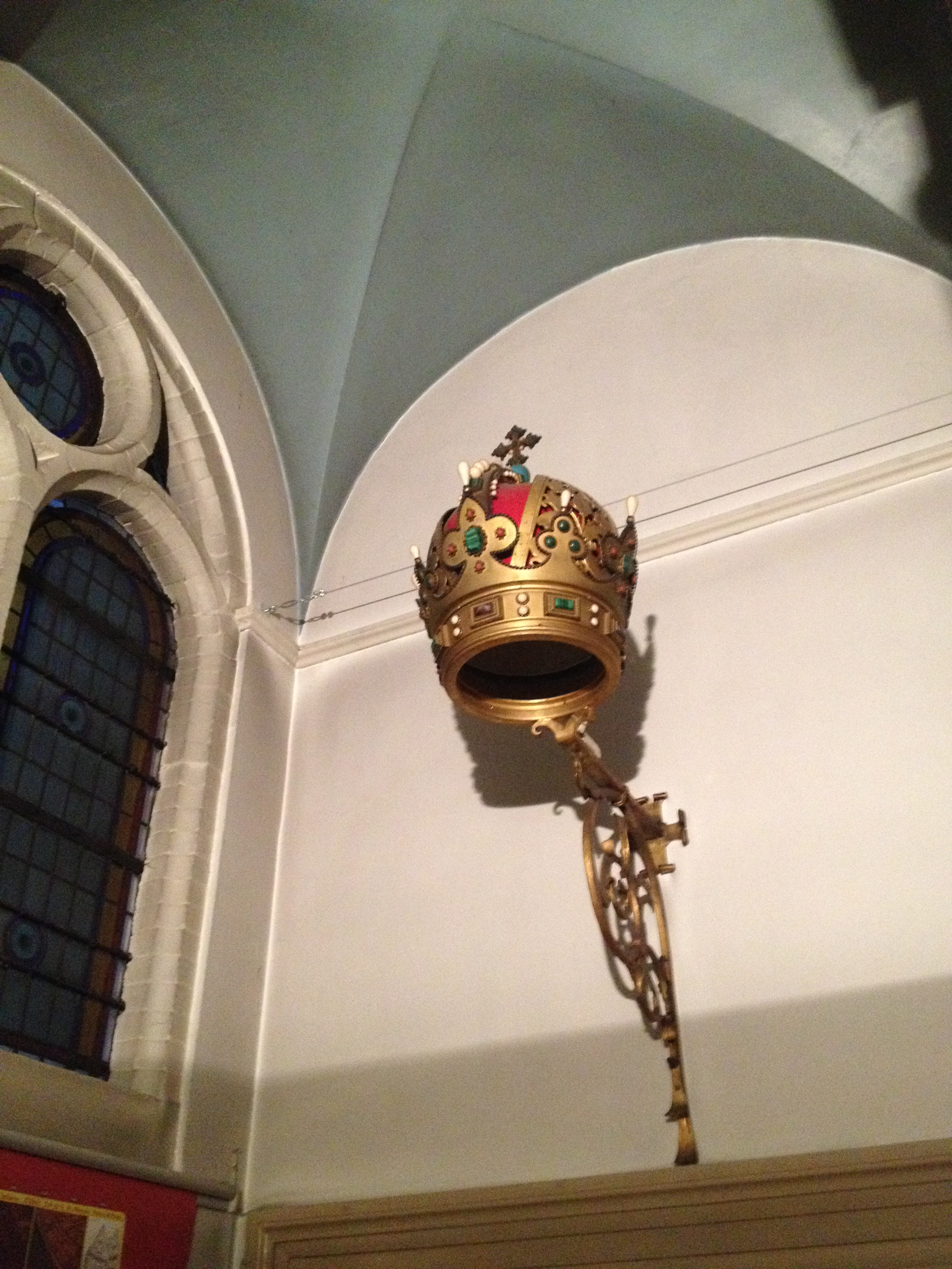 Sculpture of the Imperial Crown of Austria, inside the Begijnhofkapel, Amsterdam.